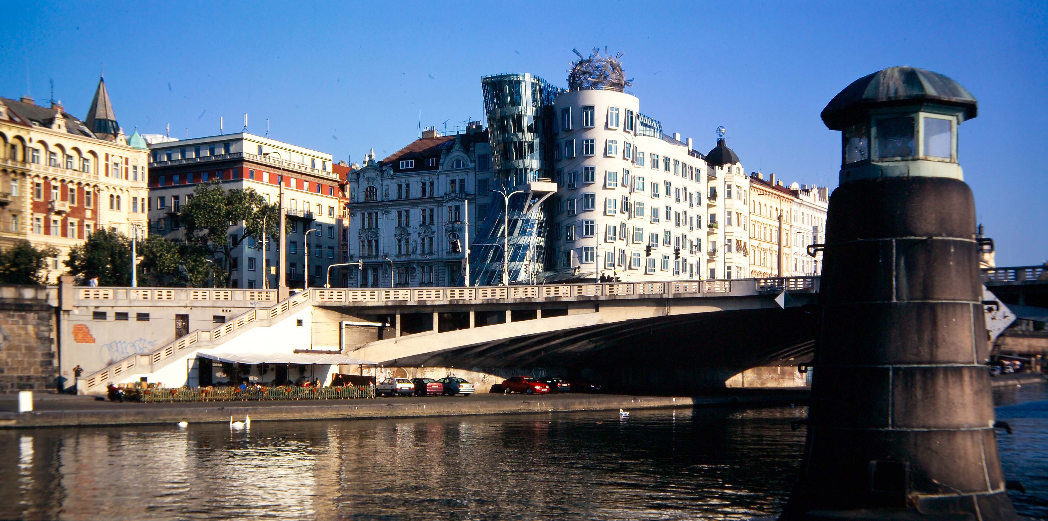 Dancing House, Prague, the Czech Republic